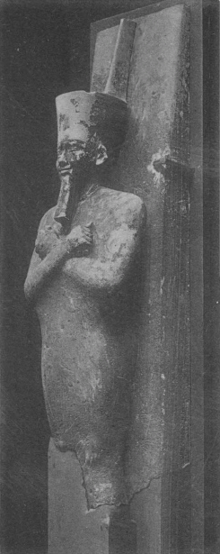 Statue of Senusret I as Osiris, from his pyramid complex at Lisht, now in the Egyptian Museum, Cairo (CG 399)